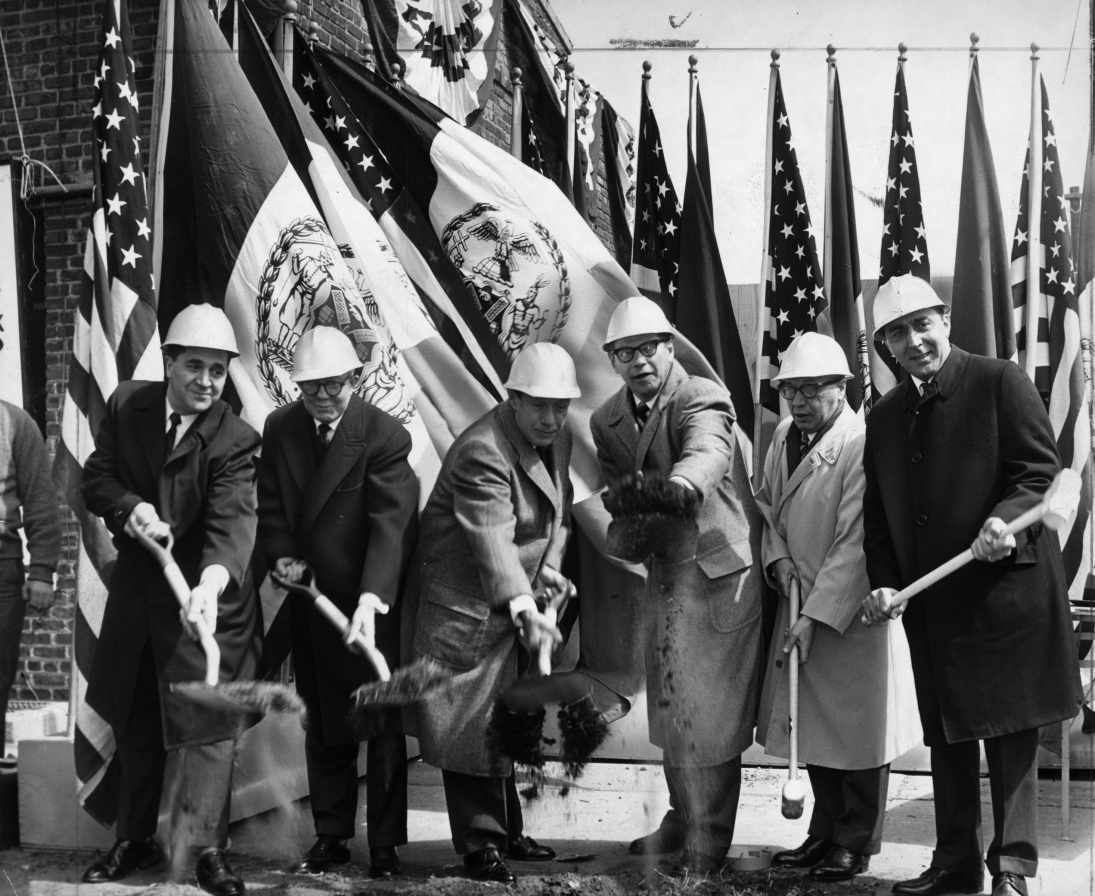 Officials man the shovels at ground-breaking ceremony for Hunts Point produce market. Caption identifies participants as: left to right: Joseph F. Periconi, Peter J. Reidy, Mayor Robert F. Wagner, Orville Freeman, Mark Yeckes, and Albert S. Pacetta.